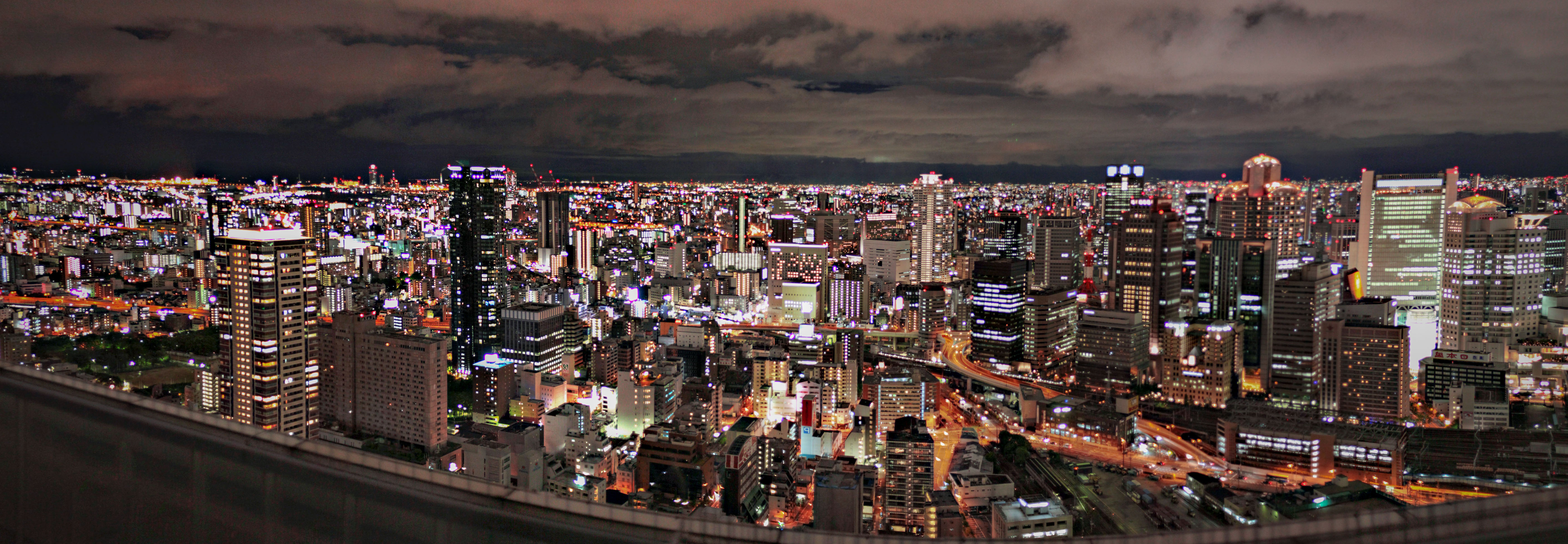 Panoramic night view from Umeda Sky Building